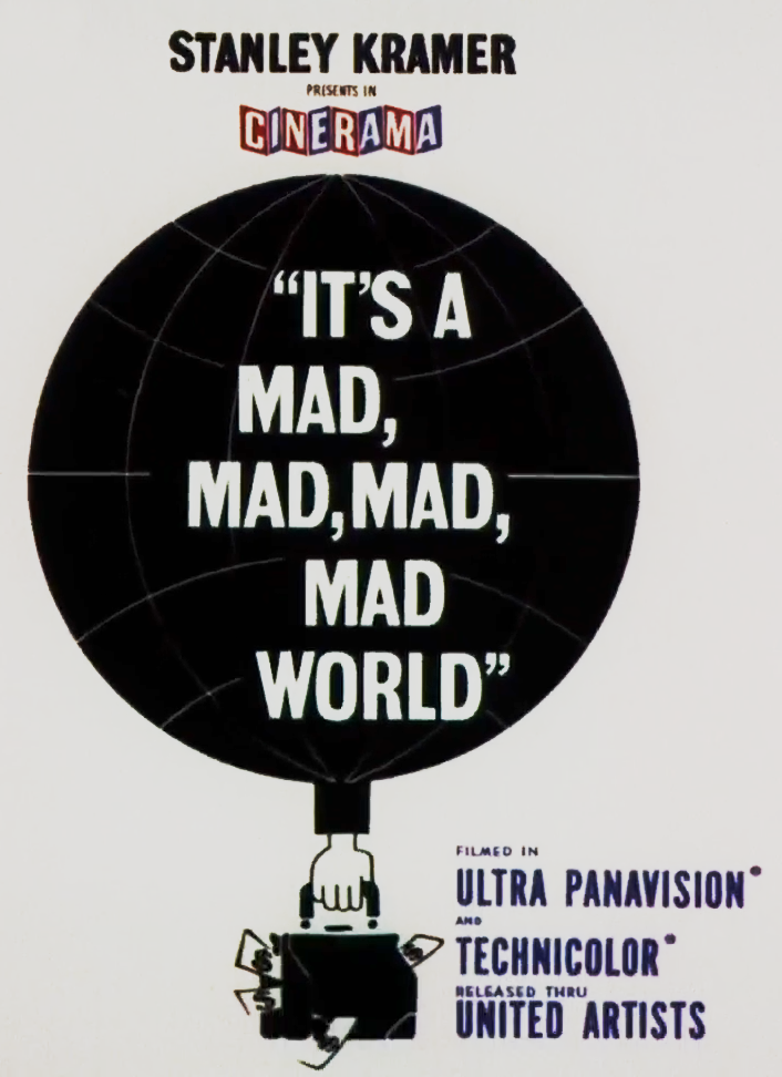 Logo of the film "It's a Mad, Mad, Mad, Mad World" (1963) taken from the trailer.